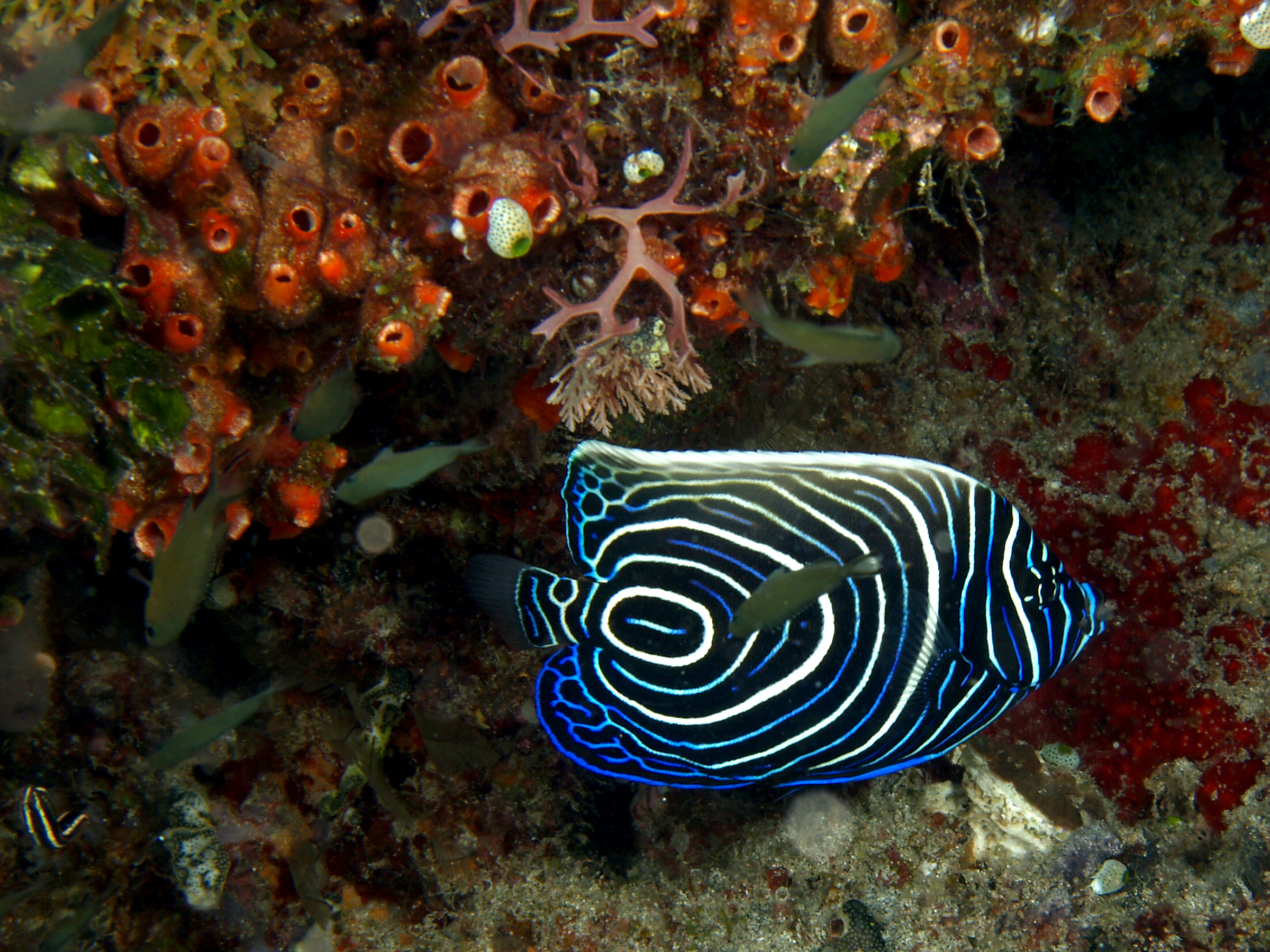 Pomacanthus imperator (Emperor angelfish) juvenile